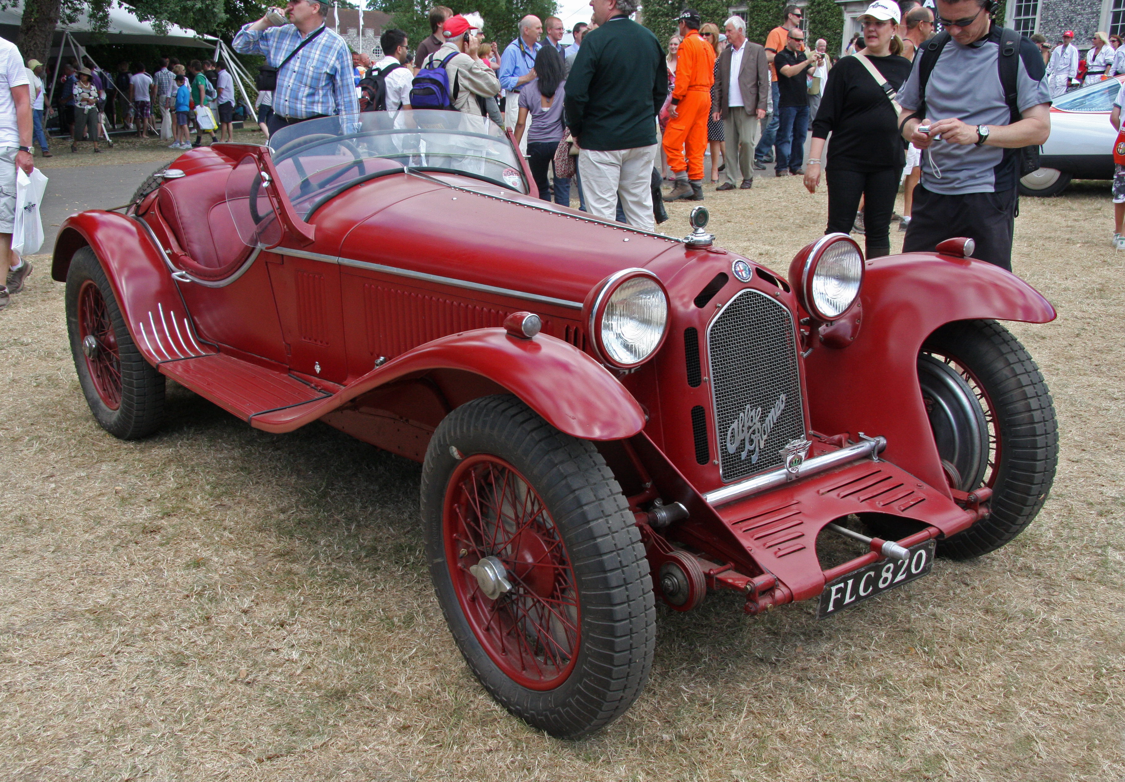 Alfa Romeo 8C 2300. This "FLC 820" is chassis number 2111013,[1] which is listed as a 1932 8C 2300 serie 1 by Fusi.[2]According to the owner Alain de Cadenet (born 1945), this car won a Targa Florio.[3] The owner also stated this car was made late 1930 as a factory test car, raced the 1931 Targa Florio after which Carrozzeria Touring bodied it as a spider (which it kept until now, i.e. 2015).[4]